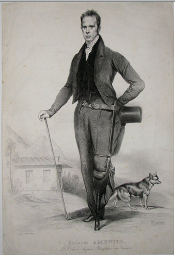 John Charles Beckwith (1789-1862); etching of a photo of Beckwith